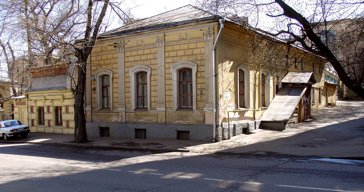 Novaya Basmannaya Street, Moscow